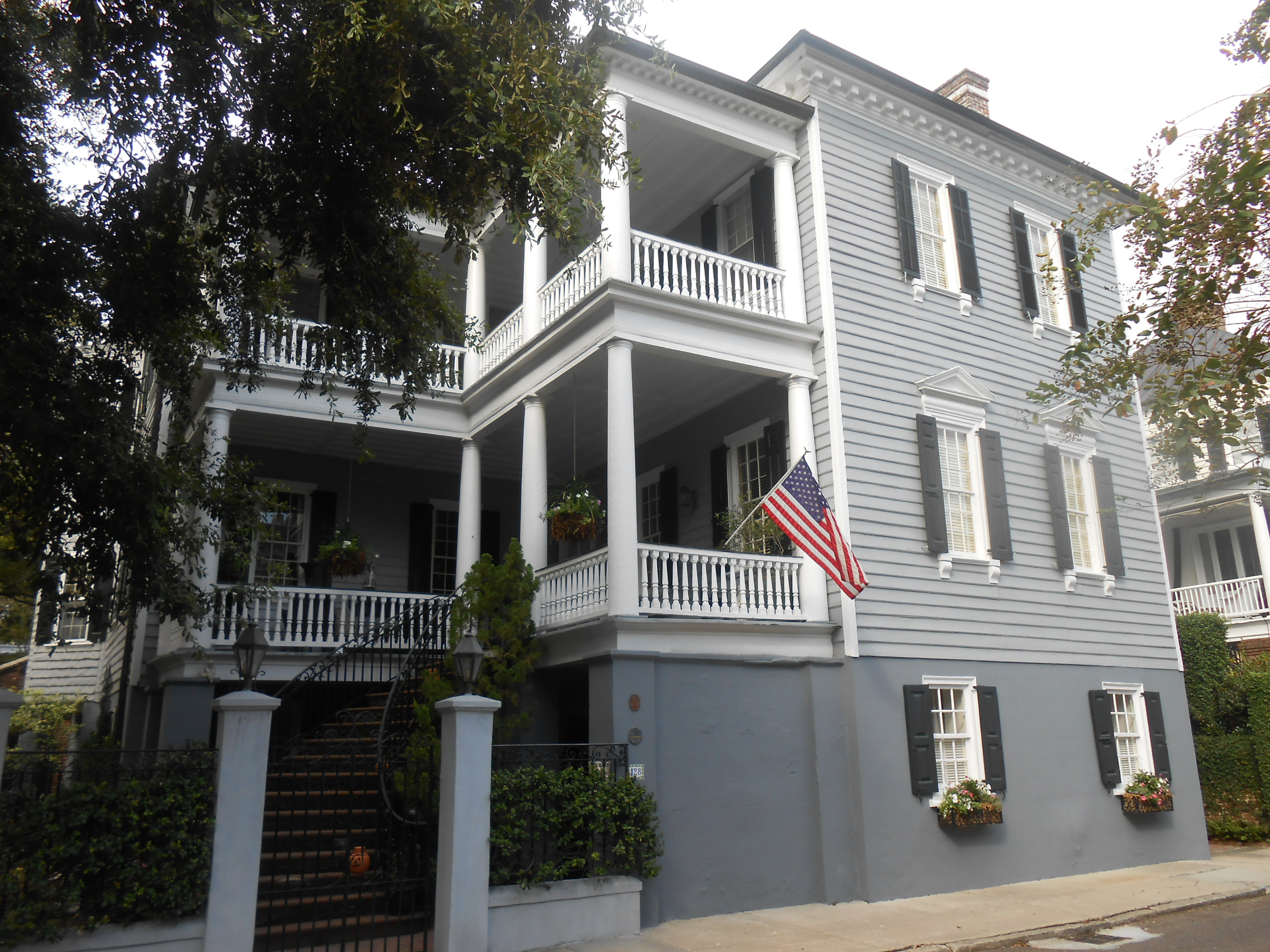 128 Tradd St. is a notable pre-Revolutionary home in Charleston, South Carolina.